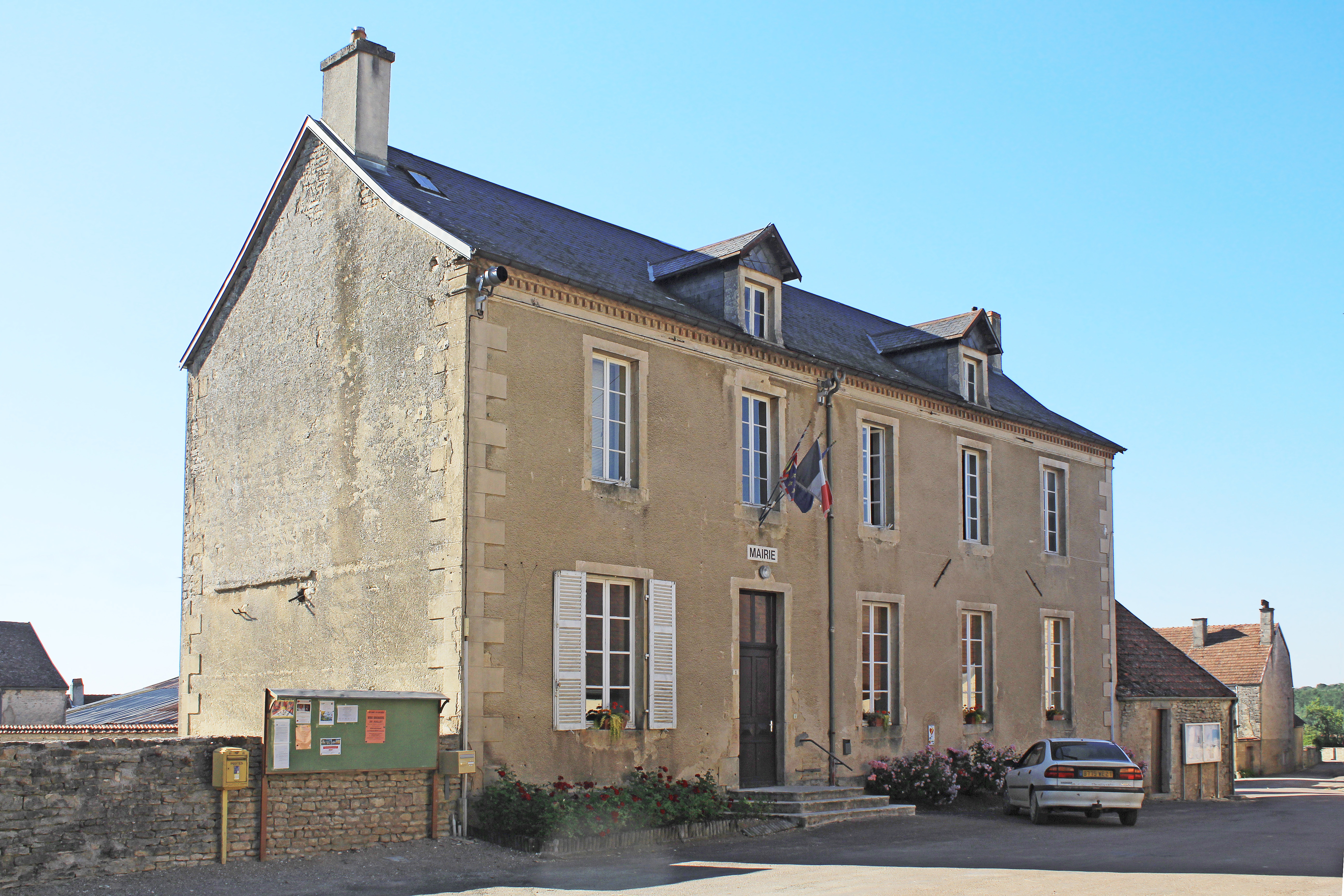 Townhall of Fontaines-en-Duesmois